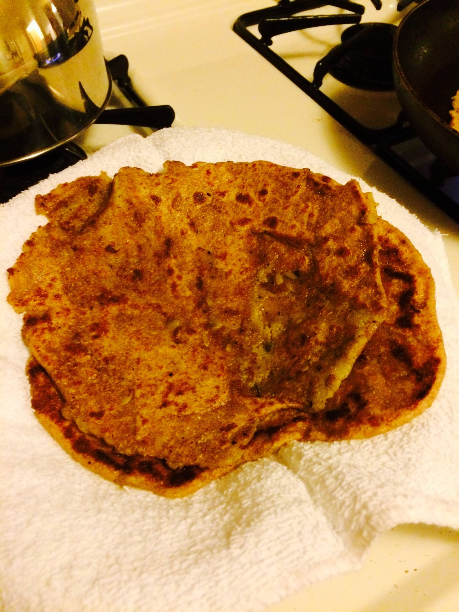 Ready to serve Aloo Parantha.